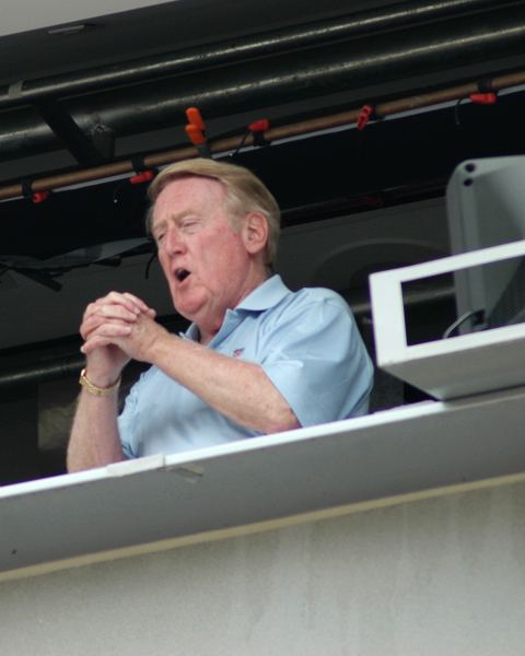 Vin Scully